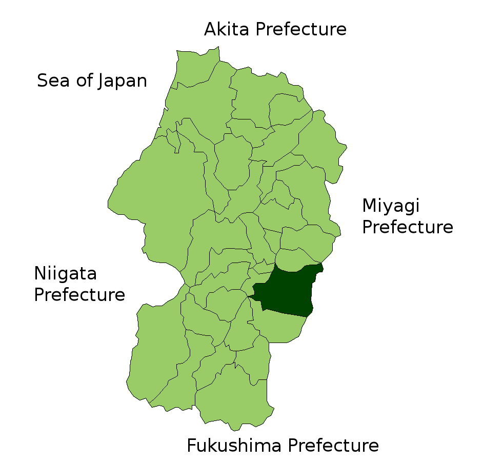 Location Map of Yamagata in Yamagata Prefecture, Japan